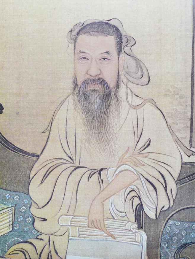 Wang Shizhen, scholar of the Qing Dynasty.